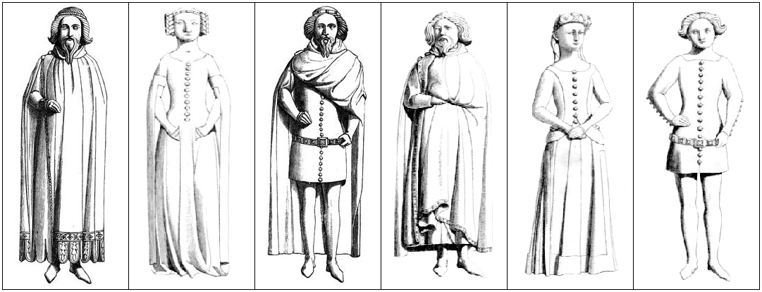 Progeny of King Edward III (1327-1377), 1840 drawing of the six surviving brass statuettes (from the original twelve) on south side of his tomb in Westminster Abbey, in order as on monument (